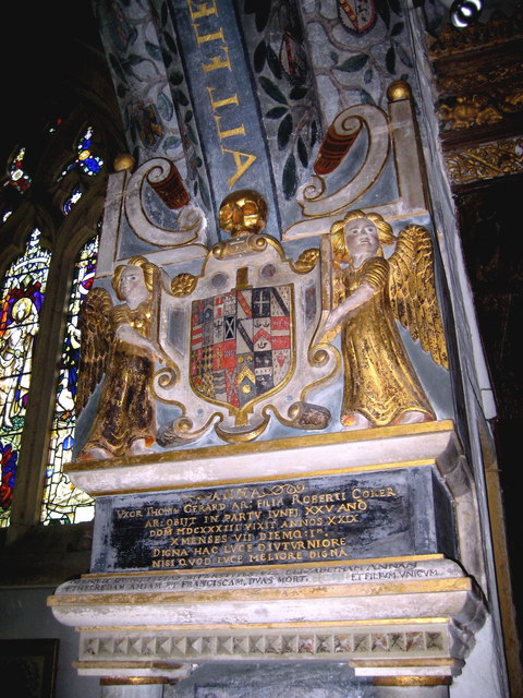 Thomas Gerard's memorial to his wife - Trent Thomas Gerard was the fourth generation to live at the manor house at Trent. He was an antiquarian and historian of local landed families. In the early seventeenth century he travelled Dorset and wrote a topographical "Survey of the Countie of Dorset" - this was not published until 1732; he also wrote a "Particular Description of Somerset". In 1618 he married Anne Coker of Mappowder in Dorset, a fact of which he was immensely proud as one can guess from the lavish memorial. The Cokers were a very well connected family which gained him access to the archives of several other ancient local families. Thomas died in 1634. Arms see: Visitation of Dorset, 1623, p.45[1]